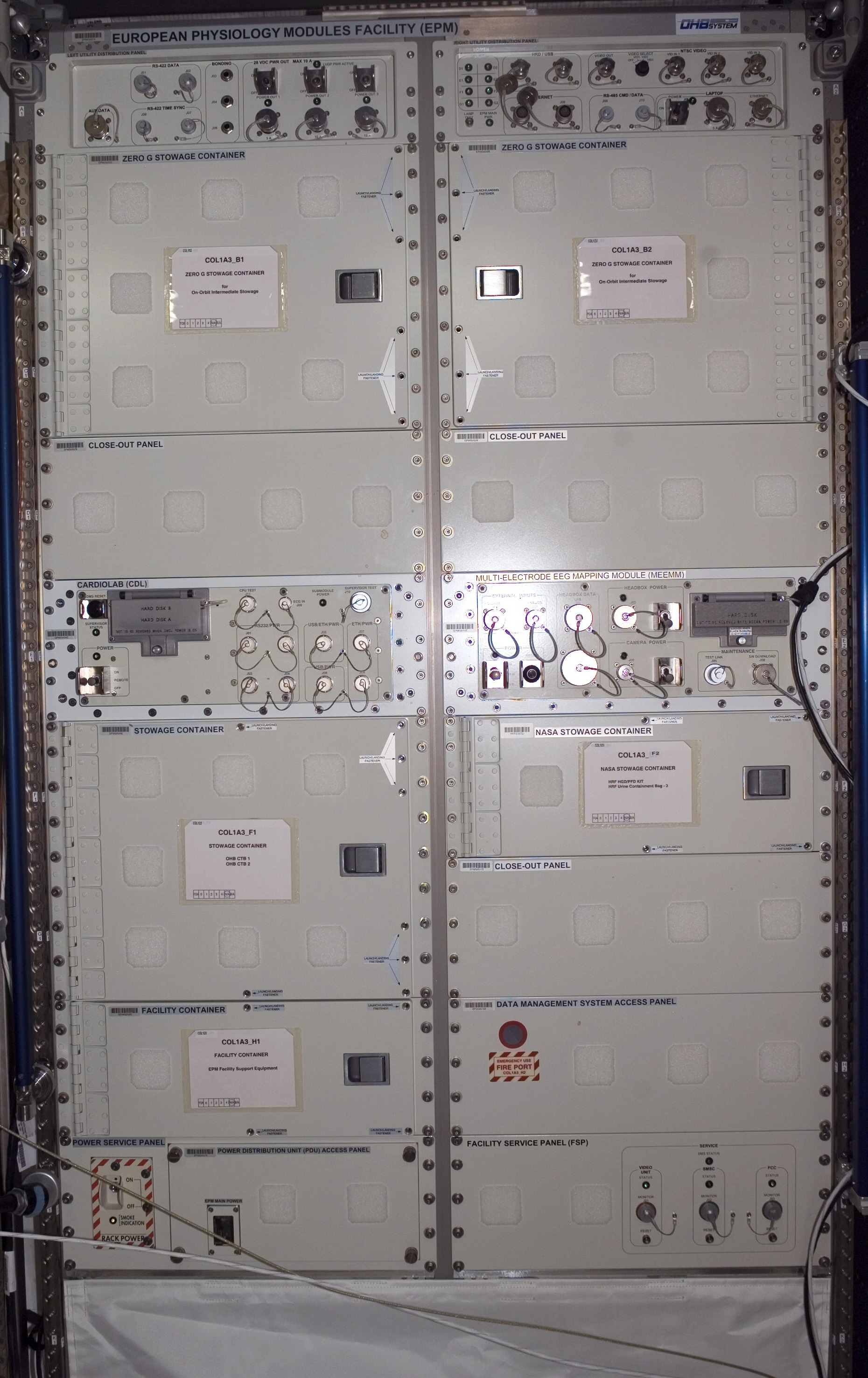 NASA Image: ISS016E031846 - European Physiology Module (EPM) installed in the Columbus laboratory. Image taken during Expedition 16.